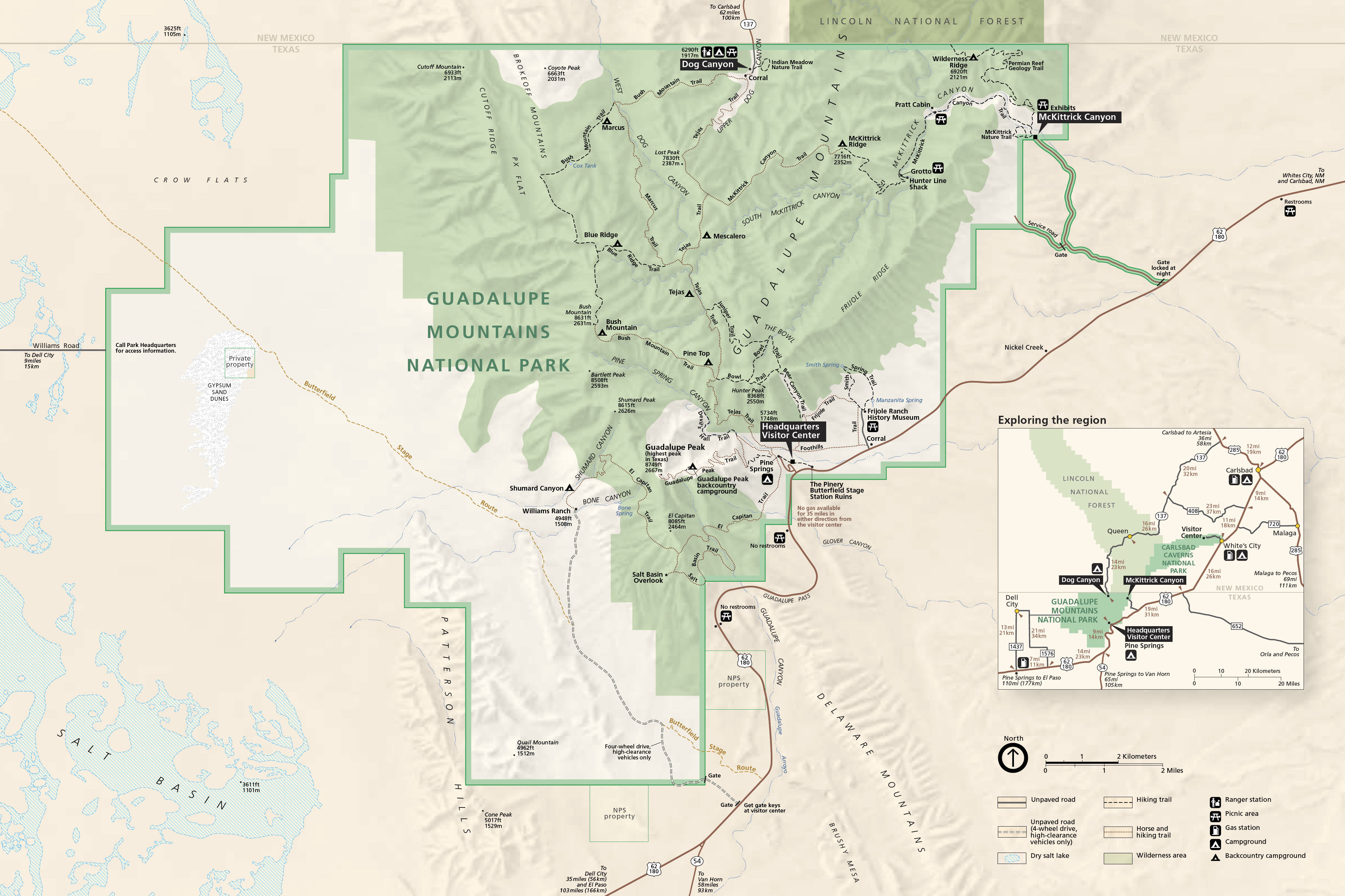 Map of Guadalupe Mountains National Park, Texas, United States